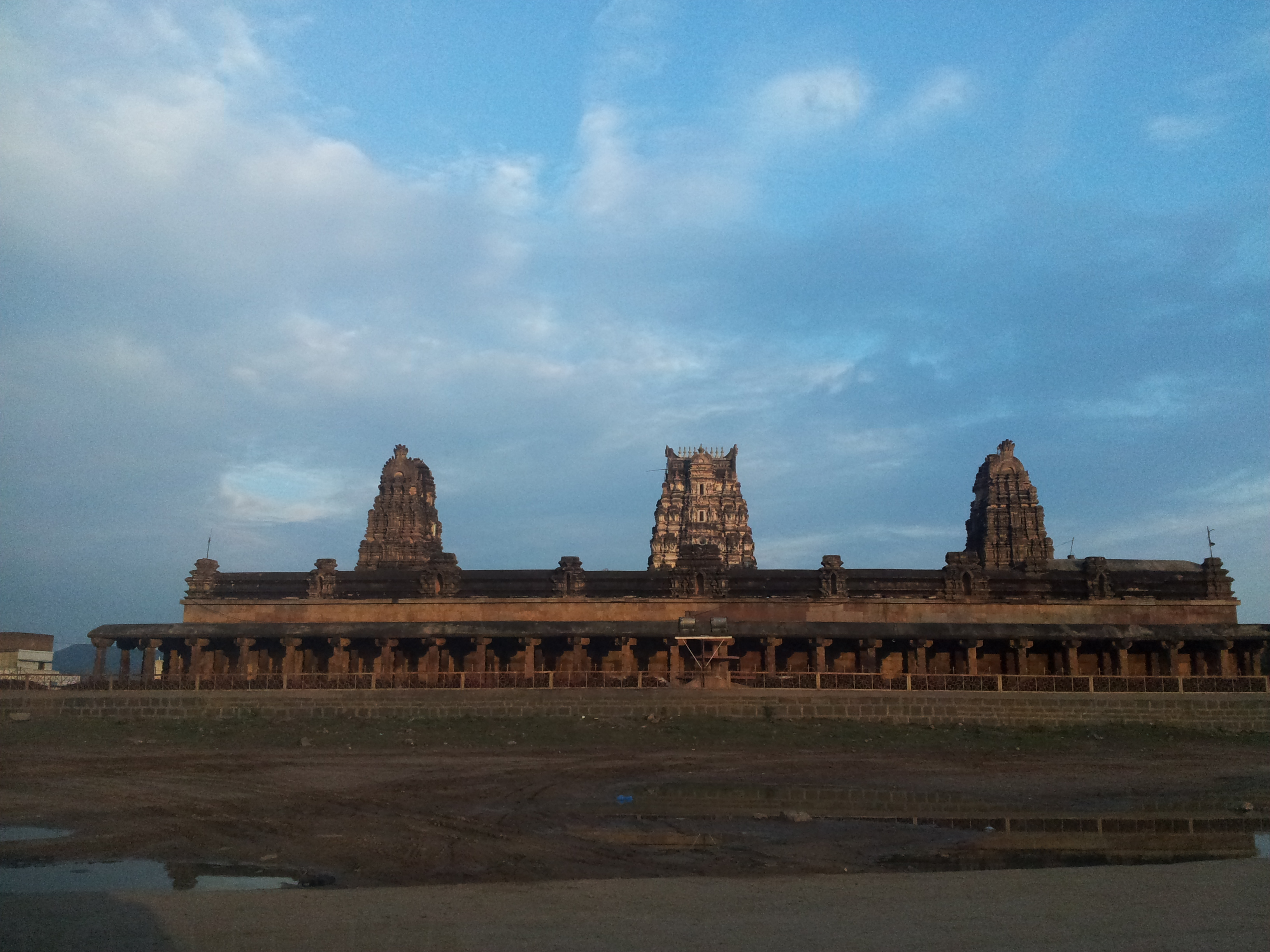 Sri Kodandarma swamy temple and adjoining buildings